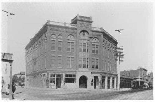 The Reliance Building in 1898 — located at 17th and San Pablo Avenue, Oakland, California.